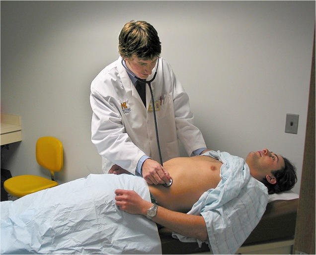 Standardized Patient Program examining the abdomen, Photo by Steve Perrin.